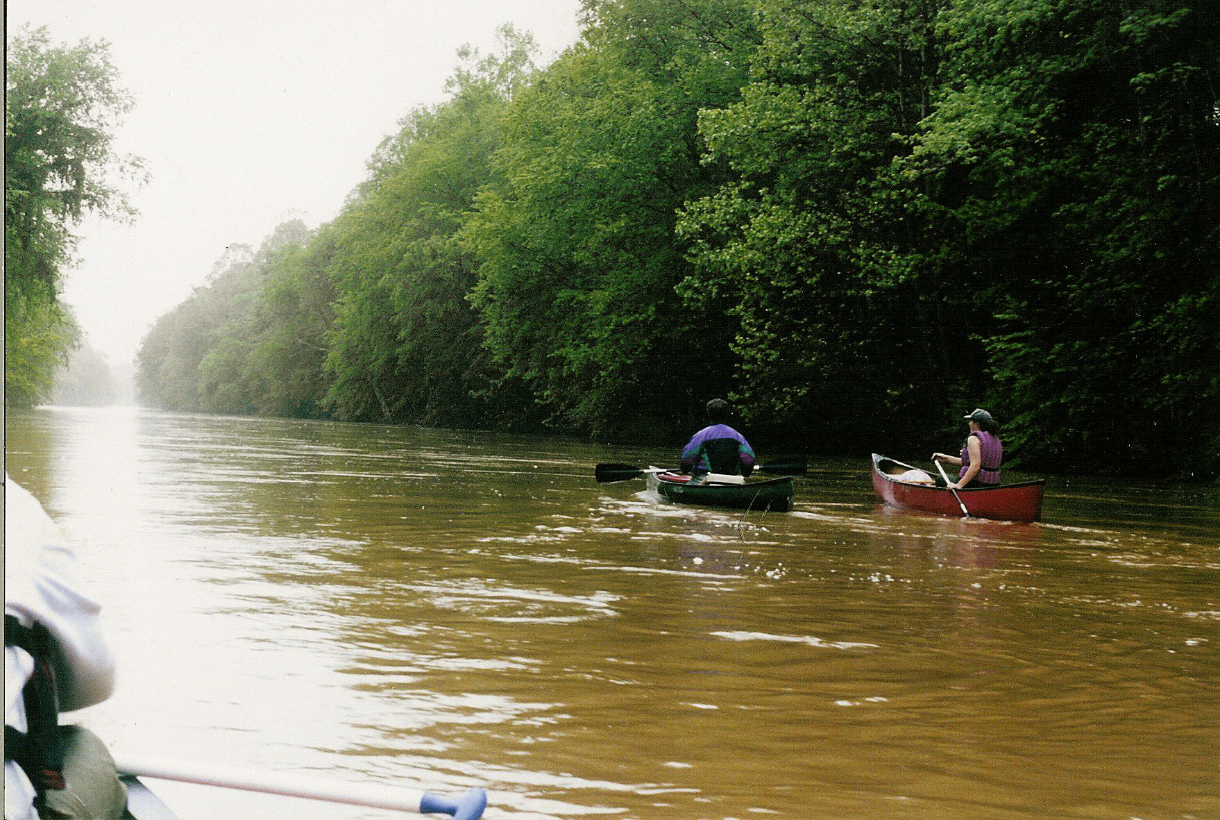 Canoeing on the Wolf River near Germantown, Tennessee.